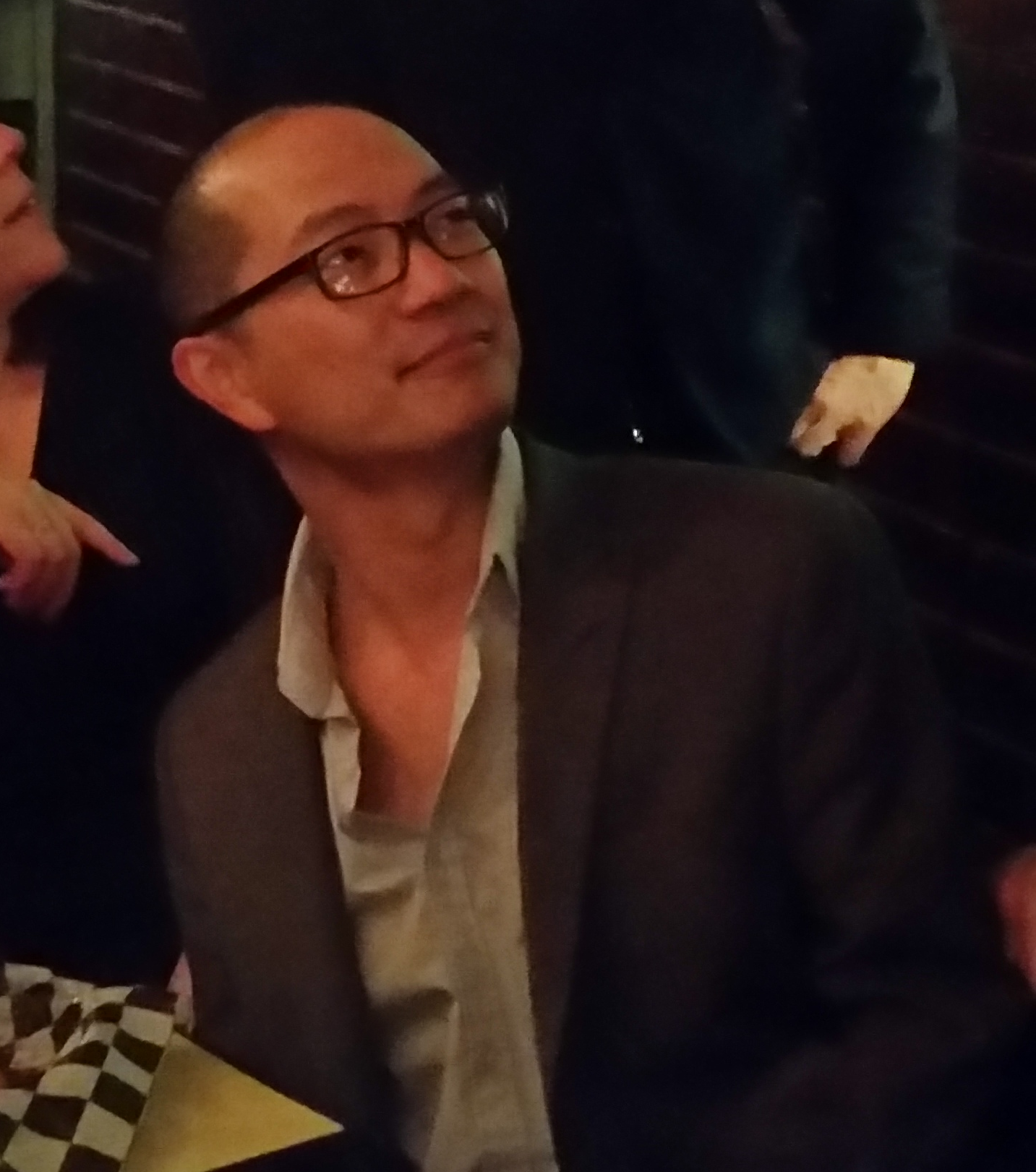 Delegate David Moon, December 2016